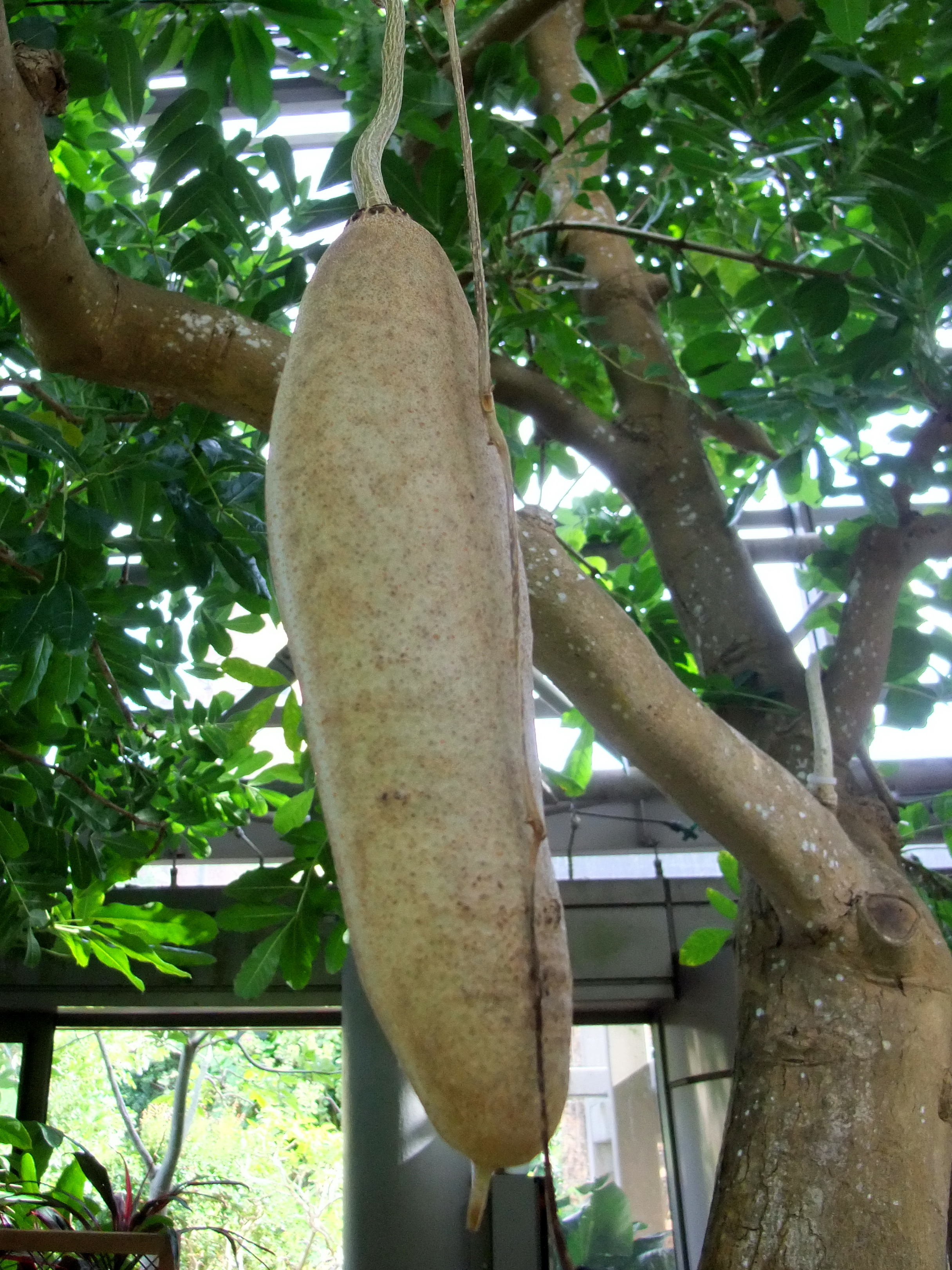 Fruit of the Sausage tree (Kigelia africana) (Kigelia pinnata DC). Photograph taken at the Tropical Dream Center, Ocean Expo Park, Okinawa, Japan.